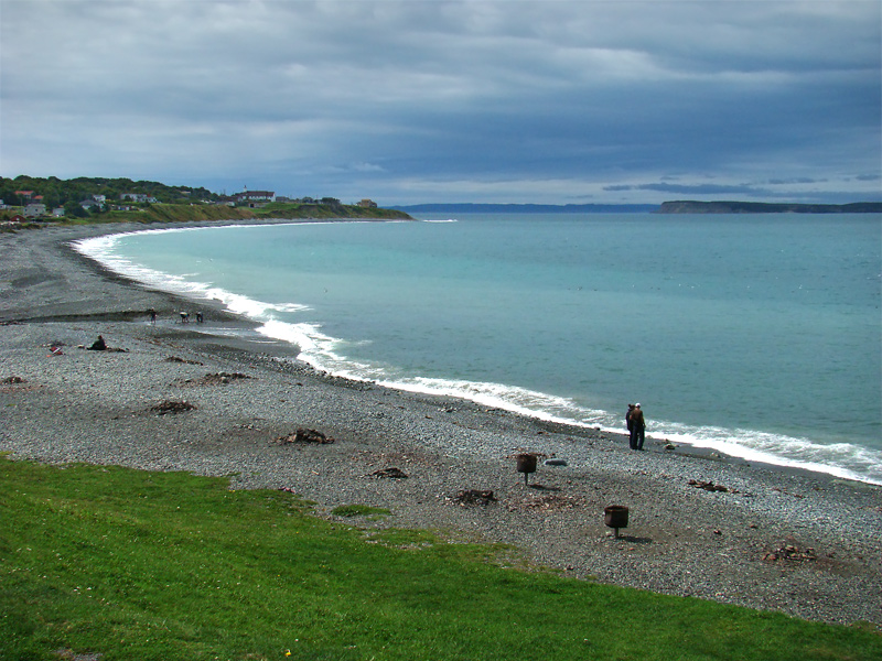 Topsail Beach, Avalon Peninsula, Newfoundland, Canada. Kelly's Island can be seen in the horizon.